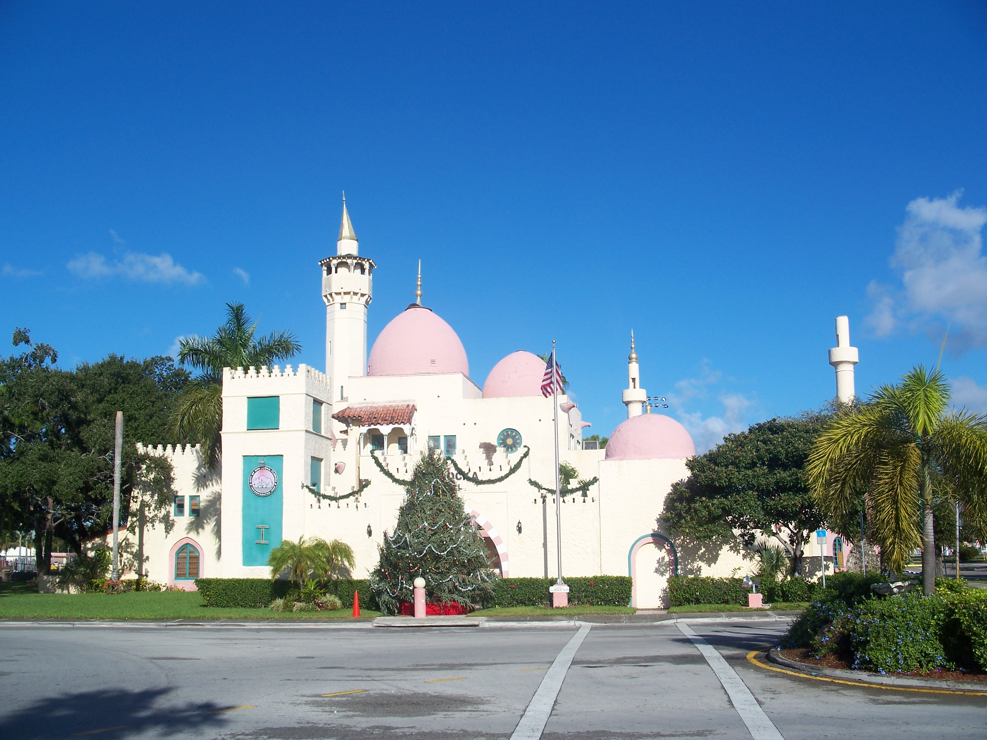 Opa-locka, Florida: Opa-Locka Company Administration Building: Now the city hall